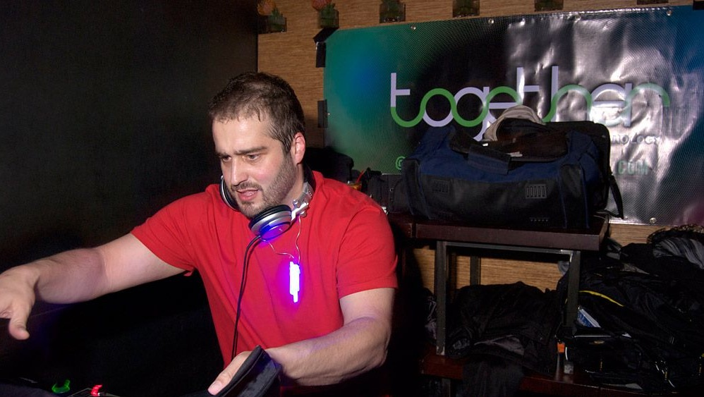 Todd Edwards performing at Together 2012